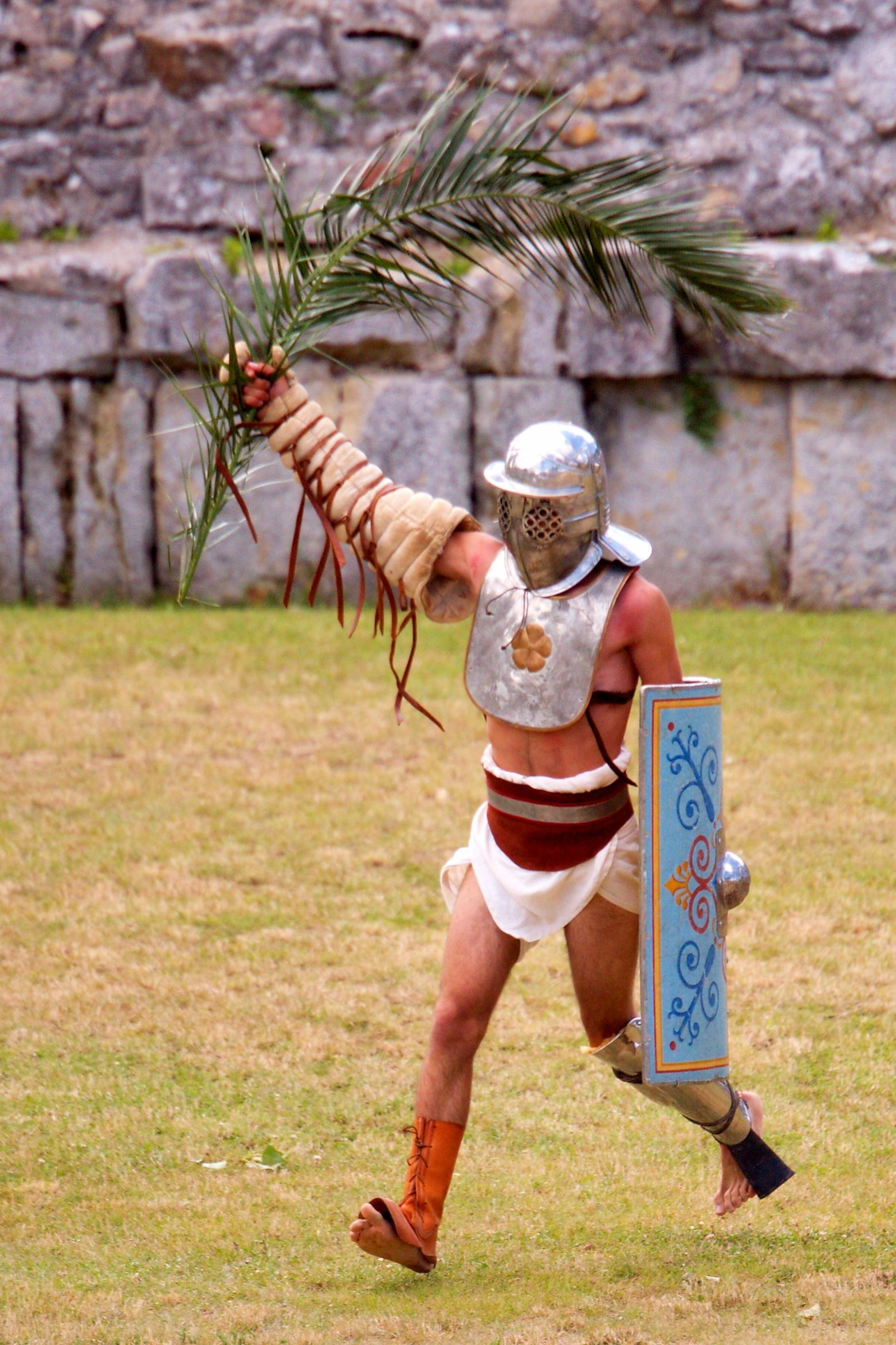 Provocator with a palm branch (lat:palmam) as sign of his victory. Circling the arena. For the fight see other versions